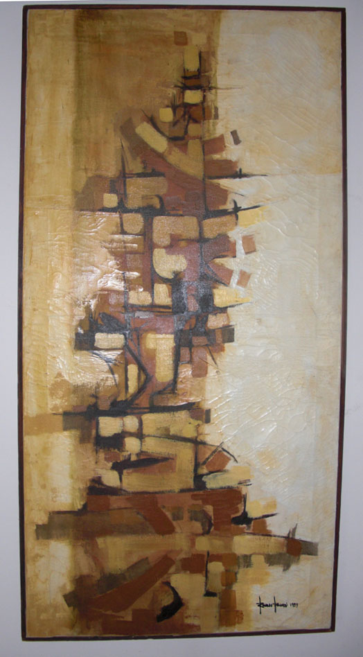 Vertical Construction (1959) by Rinaldo Paluzzi